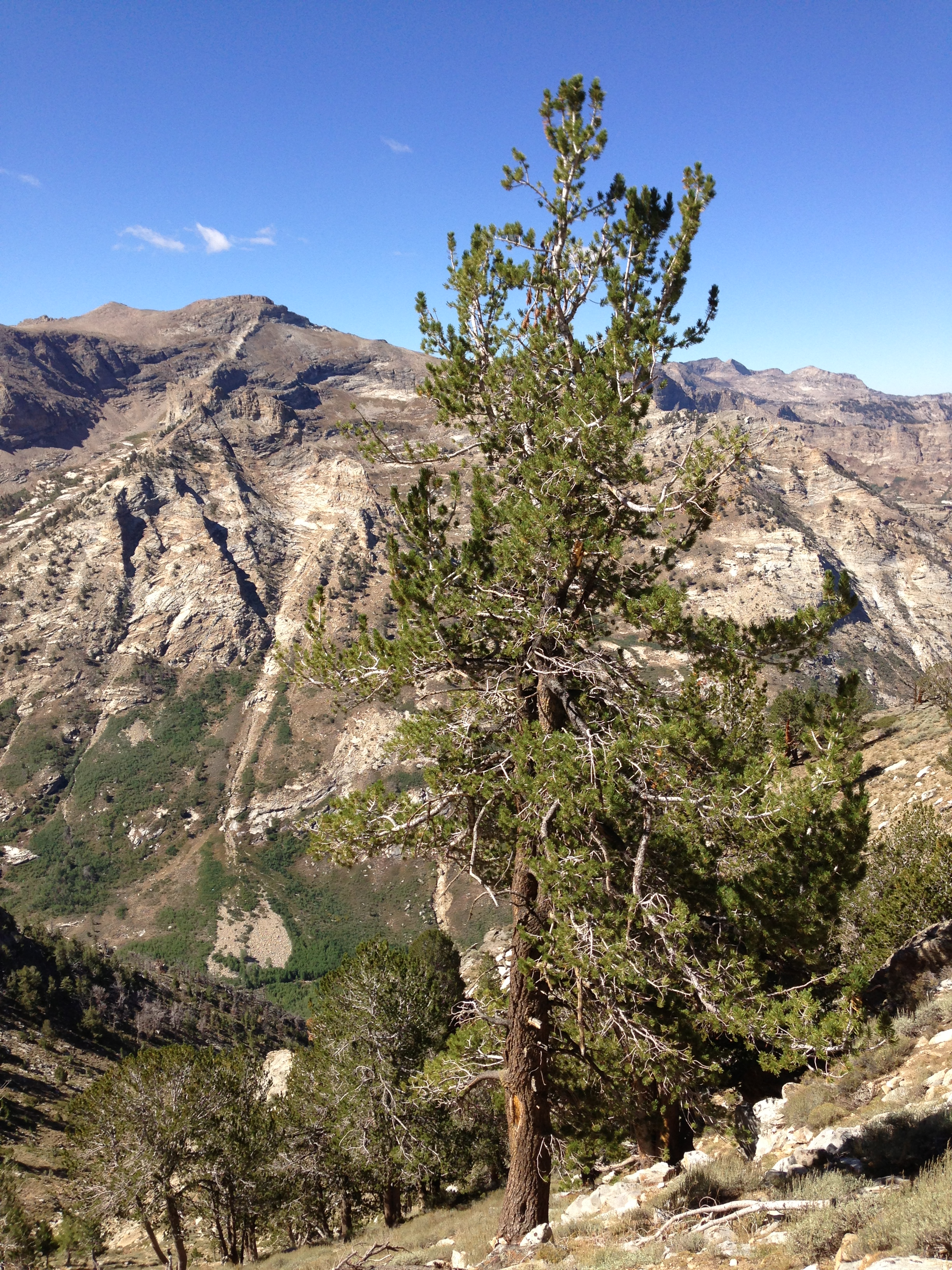 Limber Pine at 10350 feet along the route to Verdi Peaks from Terraces Picnic Area in Lamoille Canyon on the morning of September 9th 2013